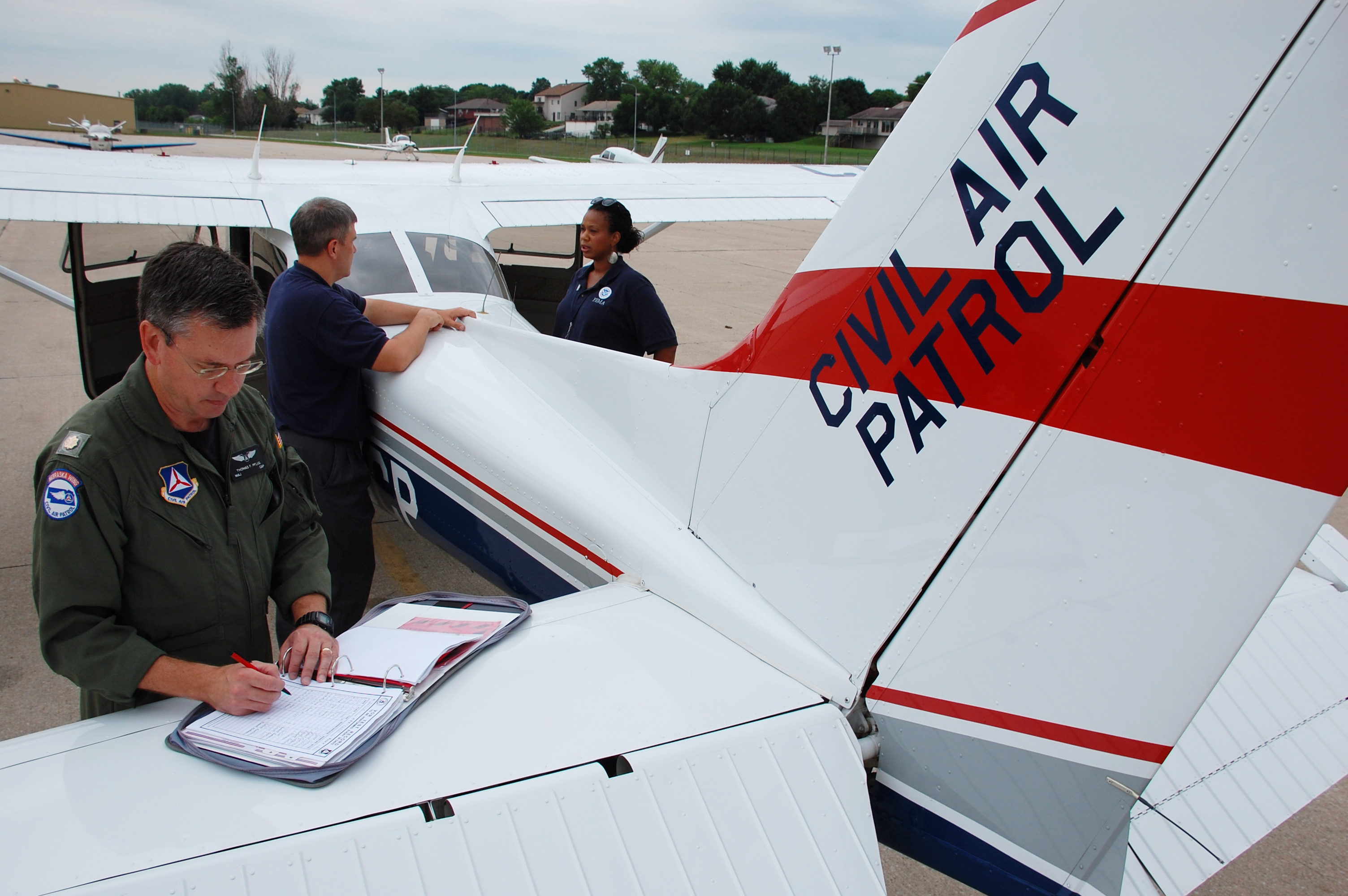 Millard, Neb., August 4, 2011 -- Civil Air Patrol pilot Tom Pflug checks his flight log as CAP photographer Erich Deitenbeck discusses the days photo opportunities with FEMA's Natasha Wilkins. The CAP captures aerial photos for FEMA, the State of Nebraska, and the Nebraska Air National Guard for analysis. Jace Anderson/FEMA - Location: Millard, NE